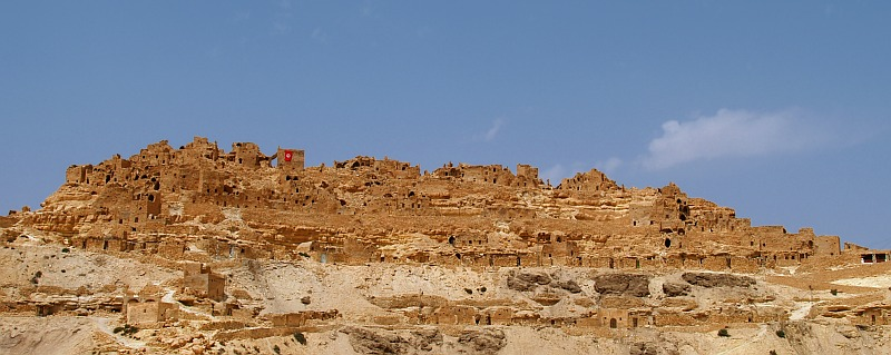 View of Chenini